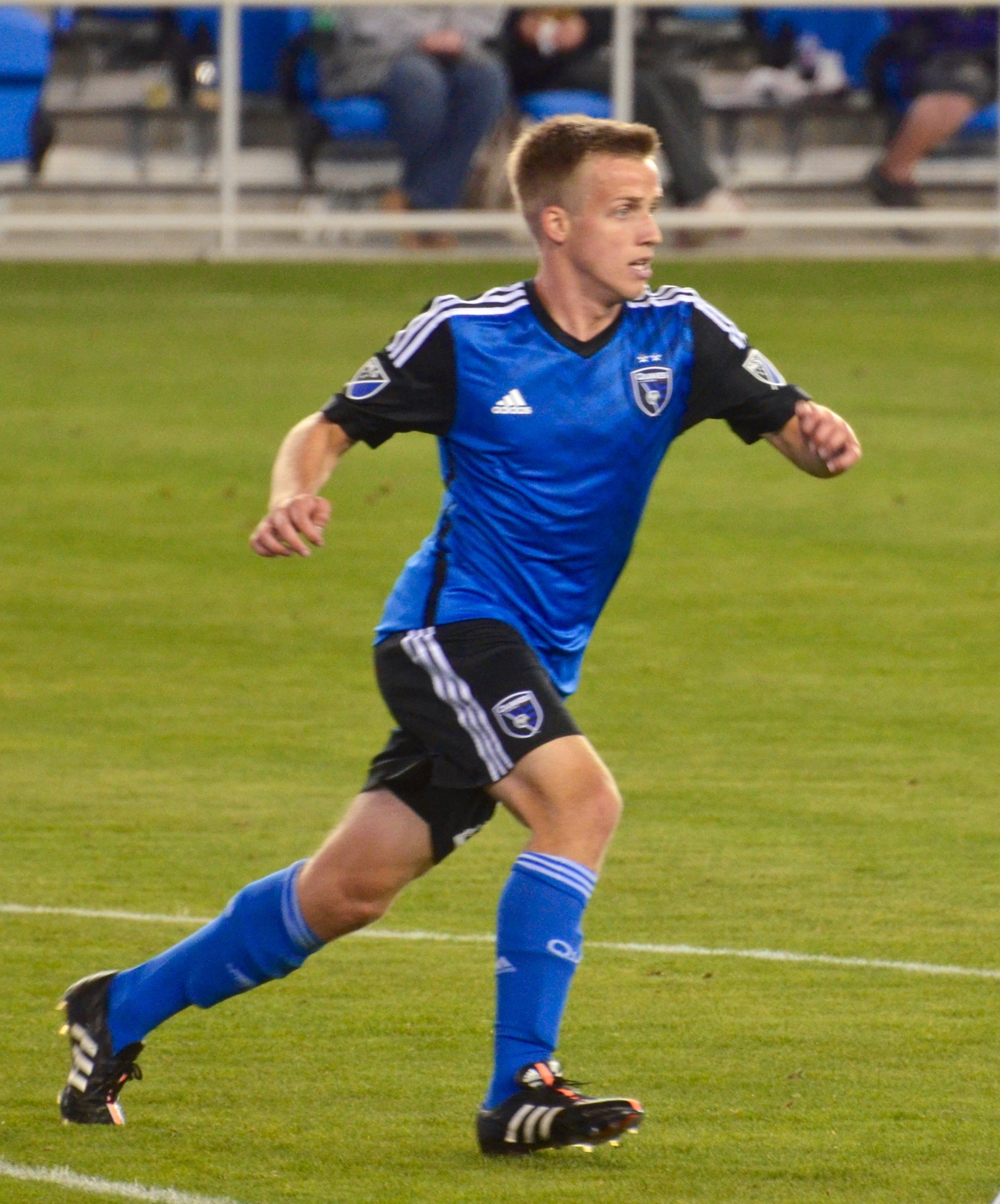 Tommy Thompson playing for the San Jose Earthquakes vs the Vancouver Whitecaps at Avaya Stadium, 11 April 2015